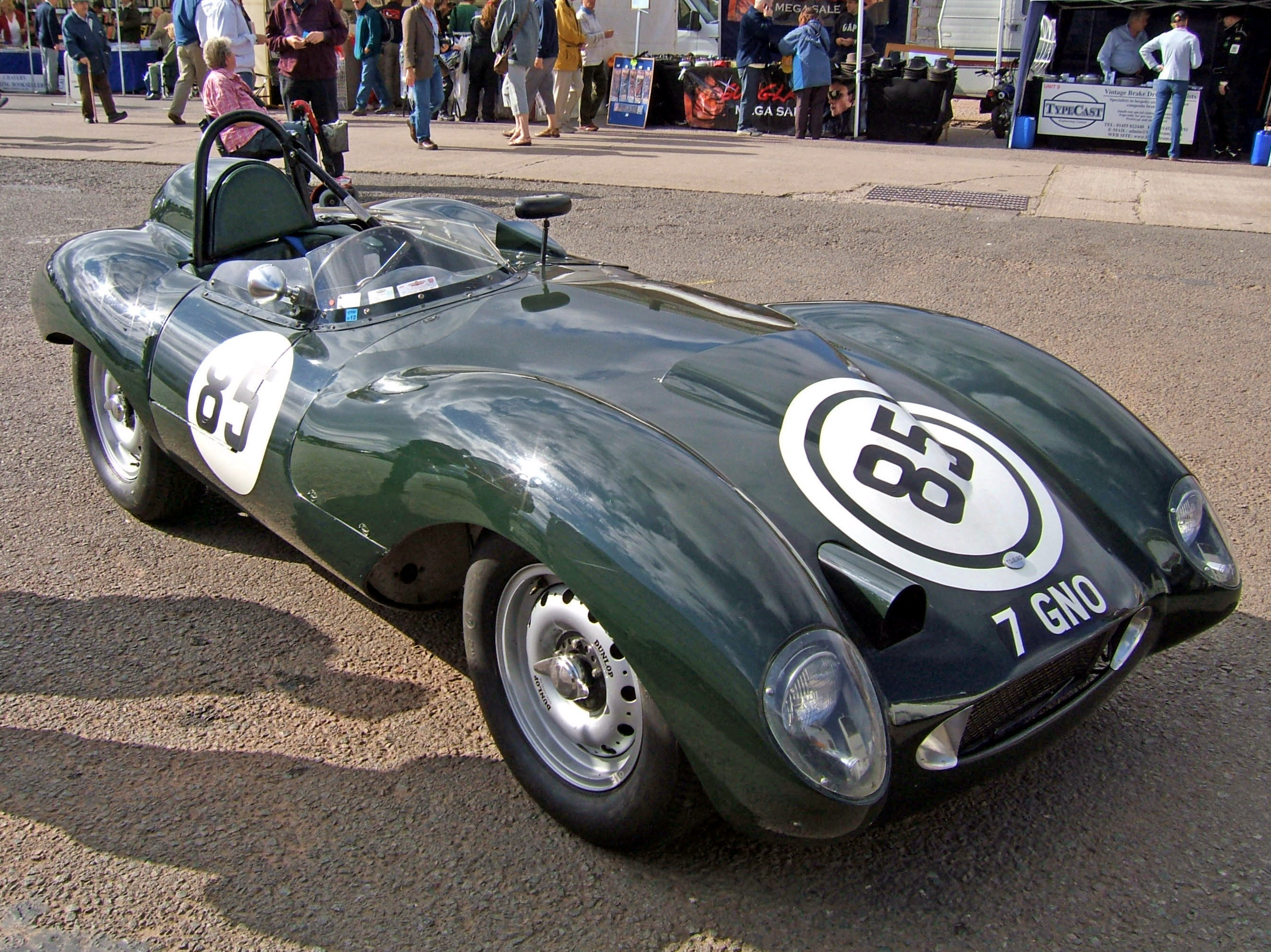 A Tojeiro Jaguar sports car, waiting in the paddock of the VSCC SeeRed race meeting, Donington Park, September 2007.